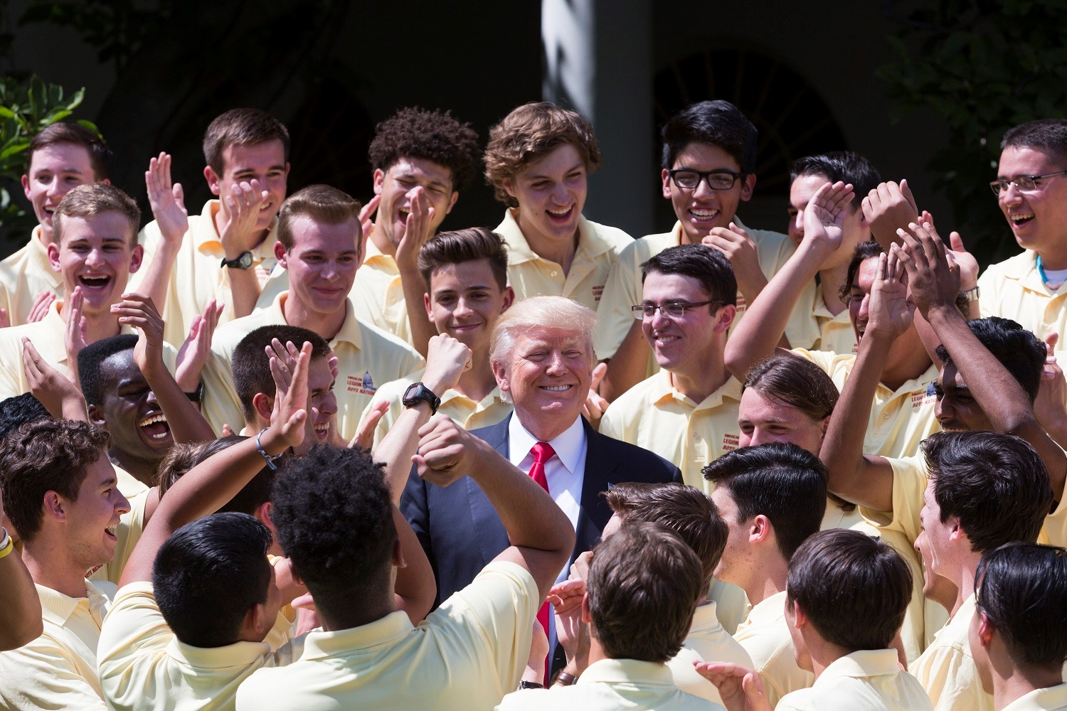 President Donald J. Trump and the American Legion Boys Nation | July 26, 2017 (Official White House Photo by Joyce Boghosian)